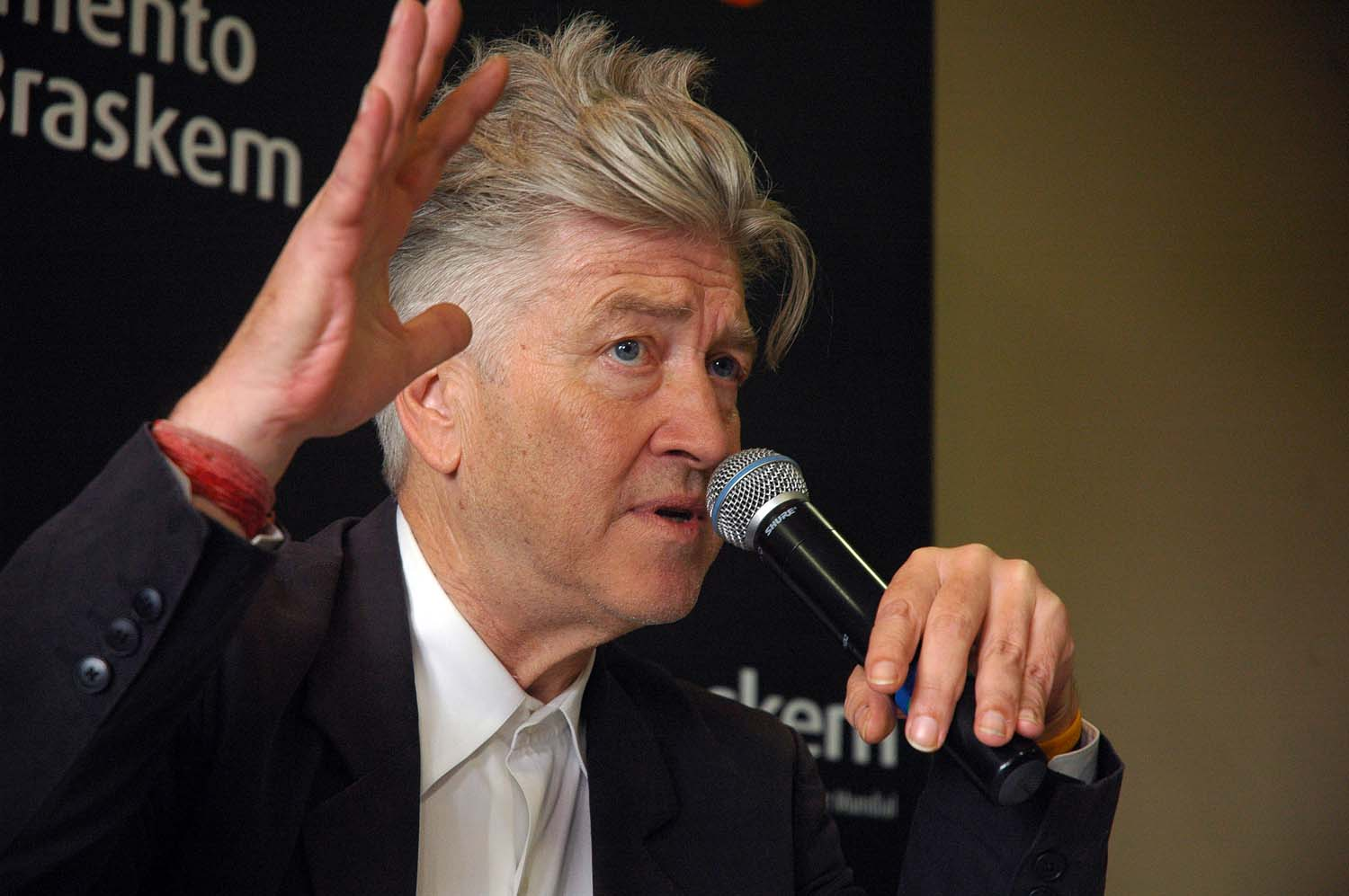 David Lynch, photographed on 10 August 2007.